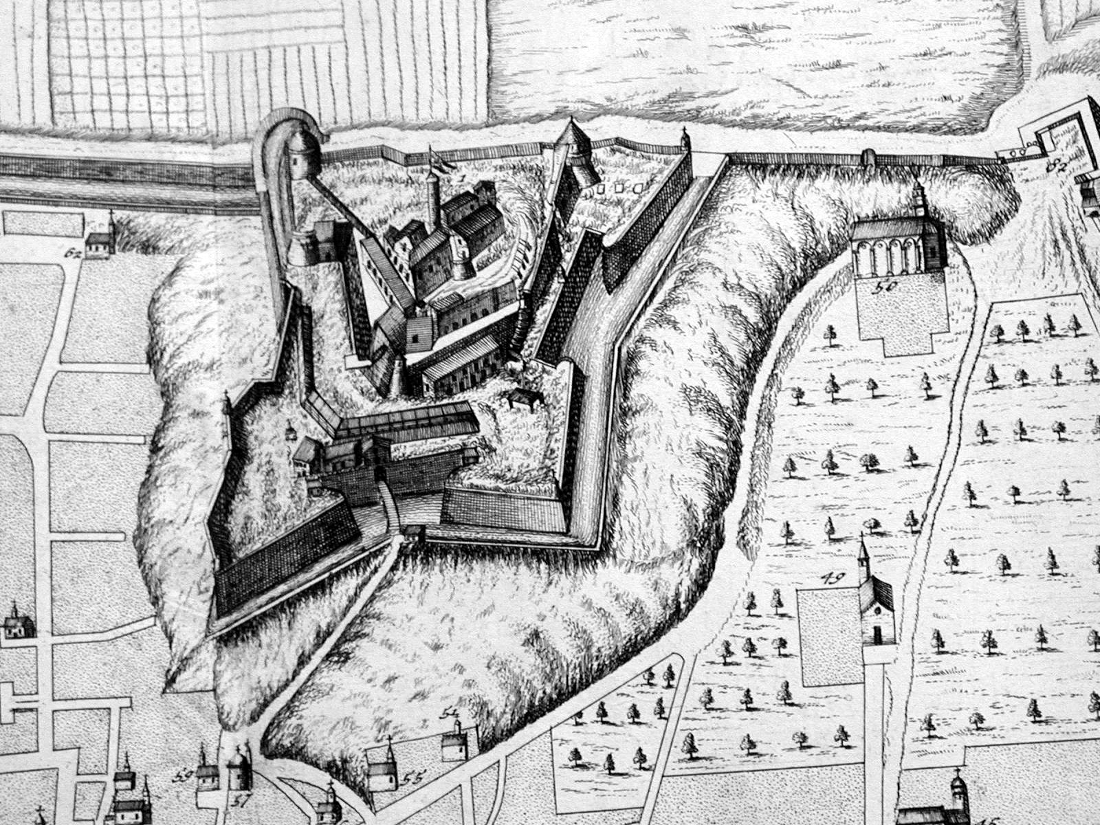 Pierre Mortier (1661-1711), The fortress ("Castello") in Brixia (Brescia), detail from an engraving showing the map of Brescia at the end of 17th century or at beginning of 18th. For the whole map see here.Picture by: Giovanni Dall'Orto, 21-7-2006.